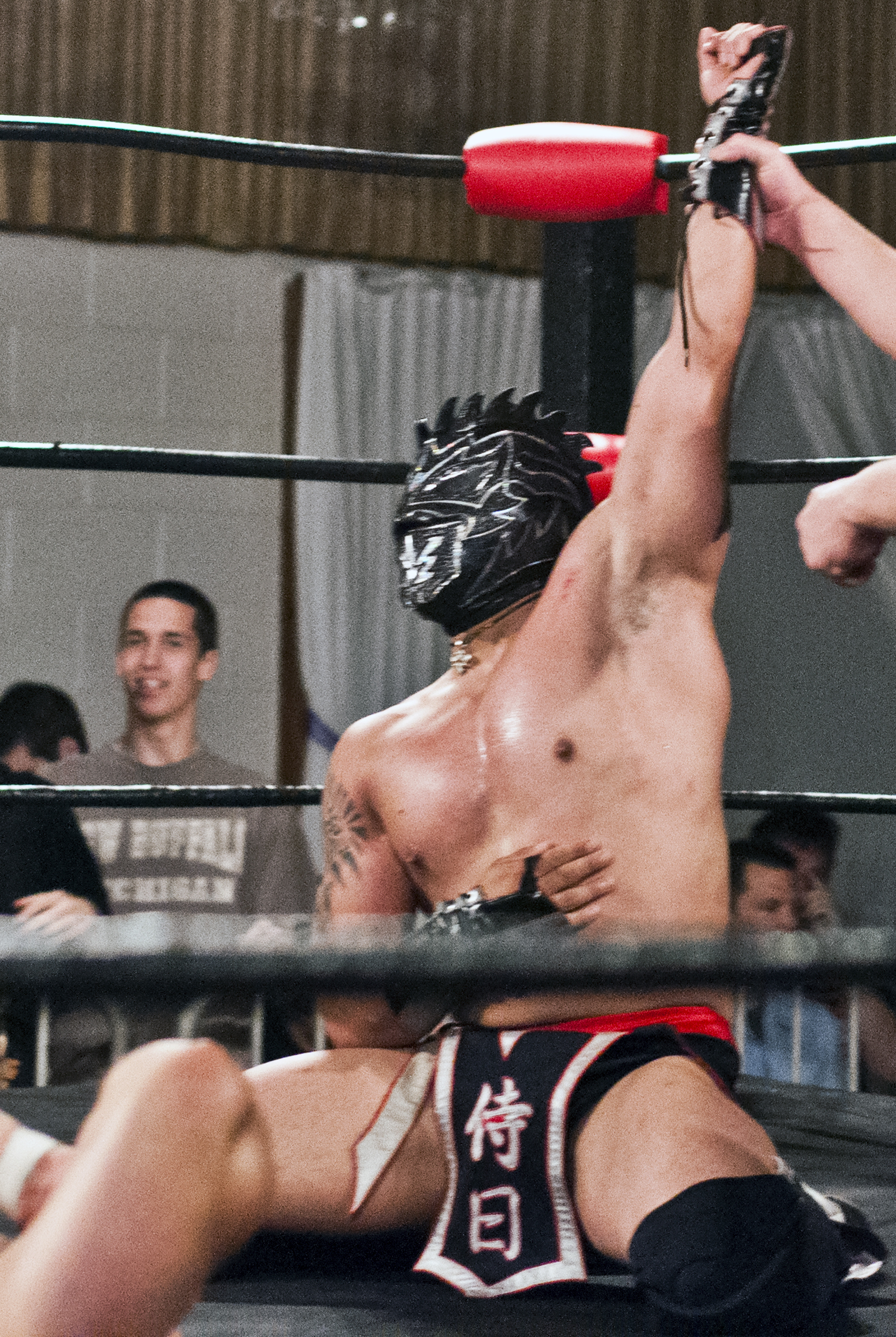 Samuray Del Sol after winning a match at AAW's Day of Defiance event in May 2012. Cropped from original image.